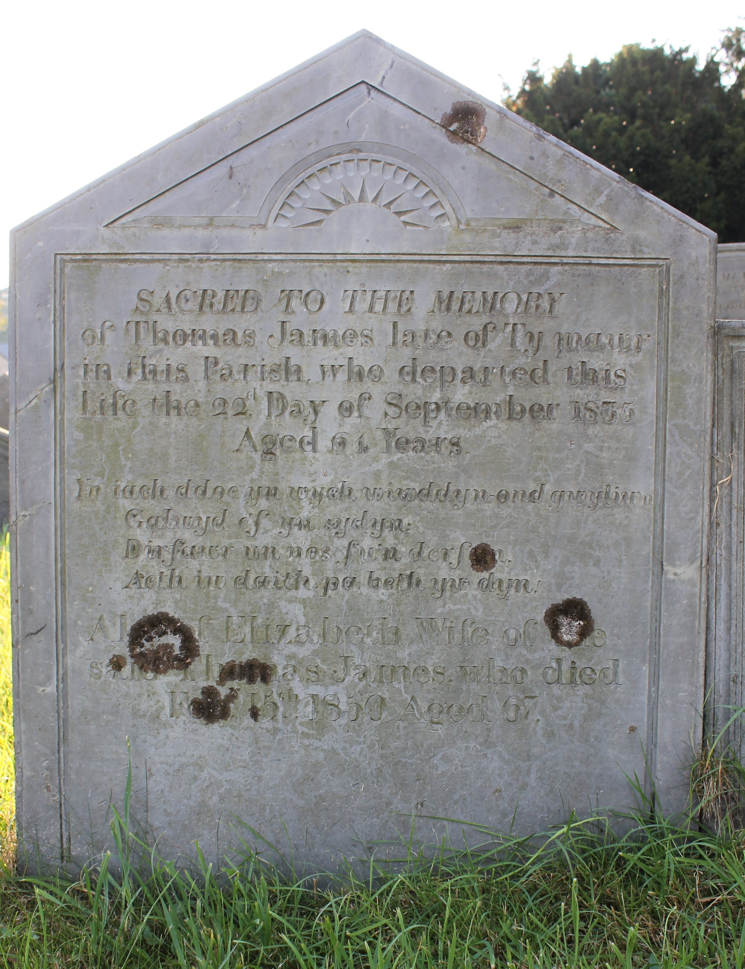 Church of St Cynog, Llangynog, Powys, SY10 0ES, is located at the centre of the village of Llangynog, in a raised churchyard enclosed by a tall wall. Dated 1791 in wall at north of churchyard.